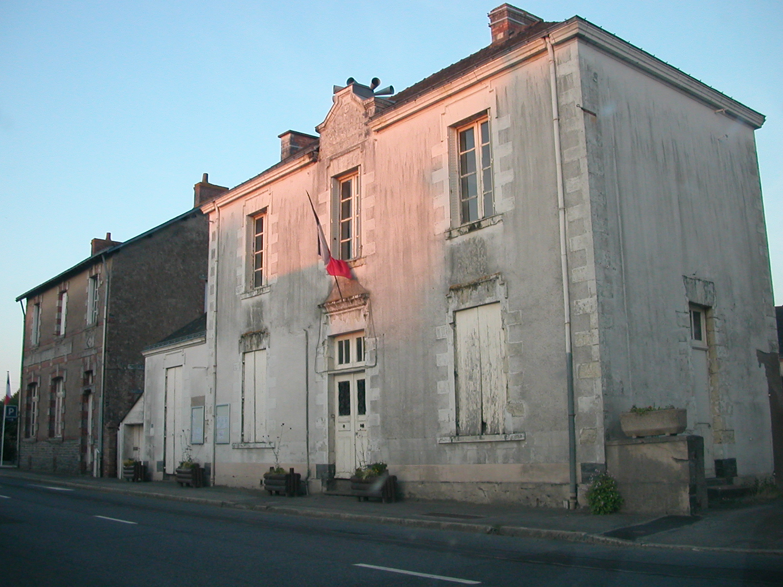 Town hall of Treffieux